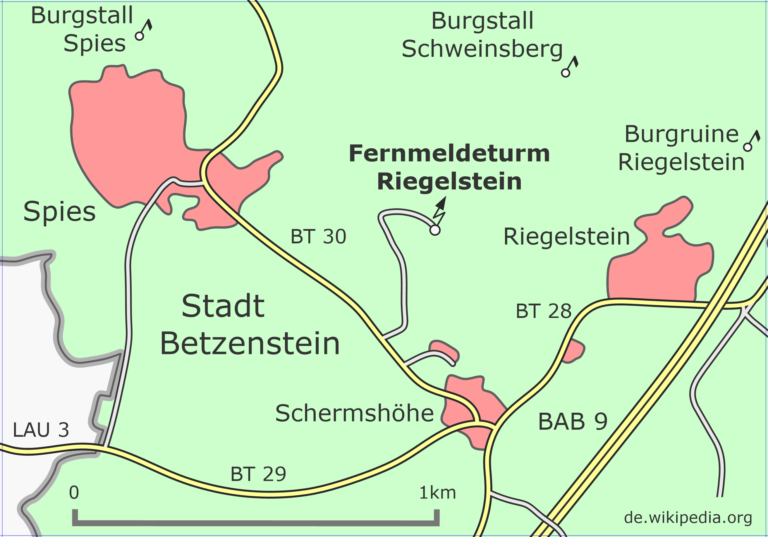 Surrounding map of the telecommunication tower of Riegelstein, located five kilometers south of the town of Betzenstein.